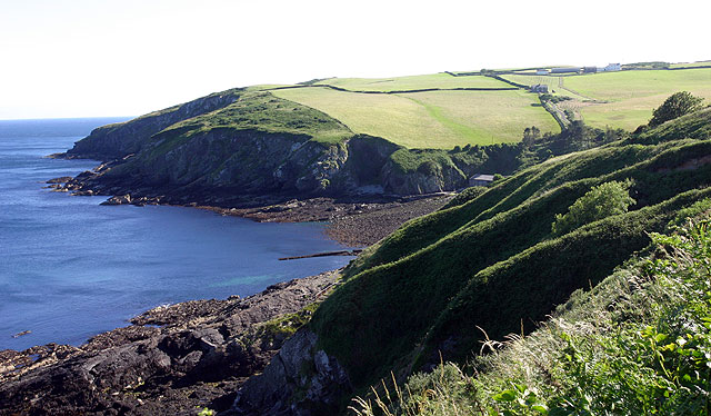 Port Soderick from the east